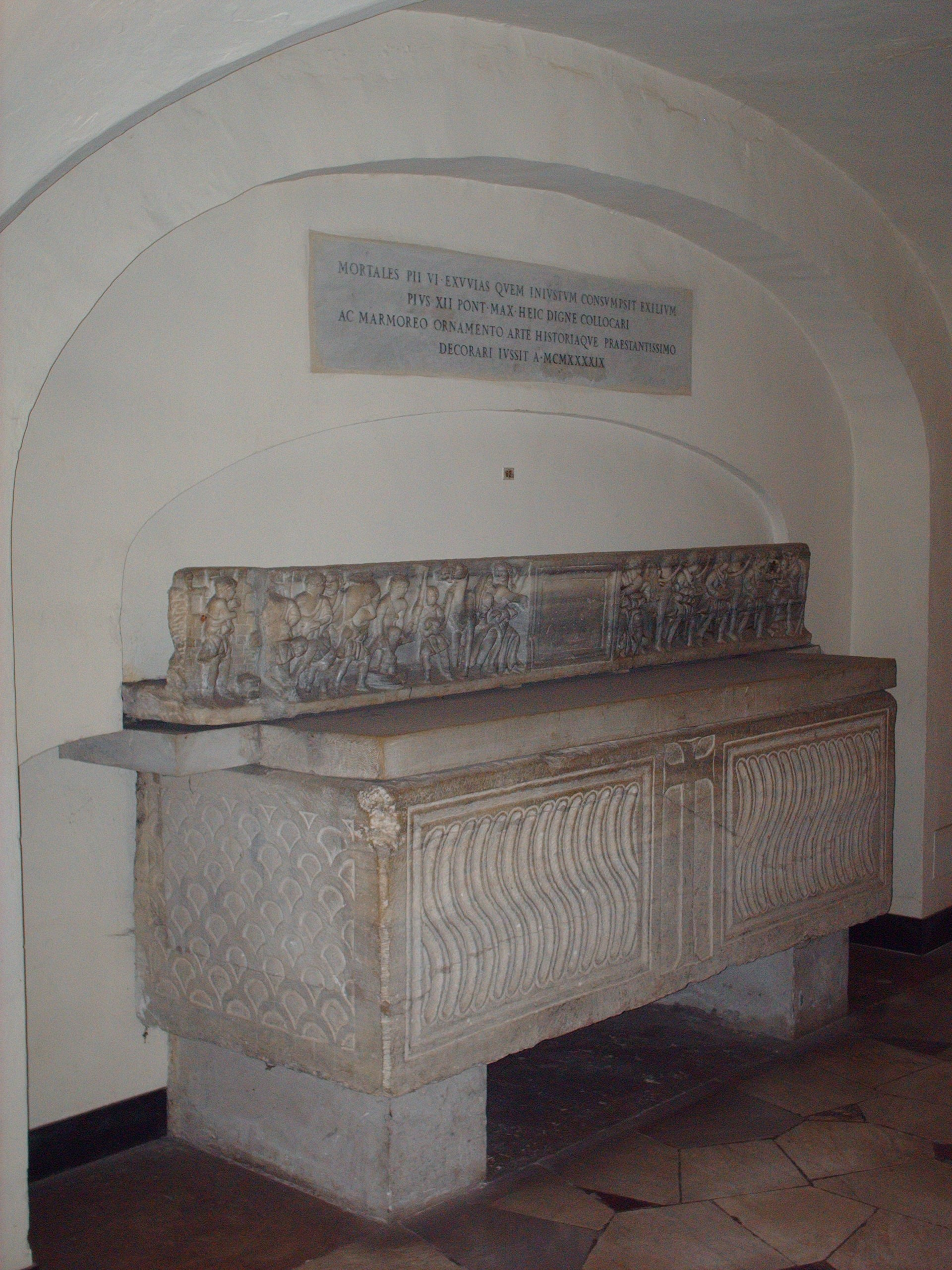 Tomb of Pius VI, "grotte vaticane", Basilica di San Pietro